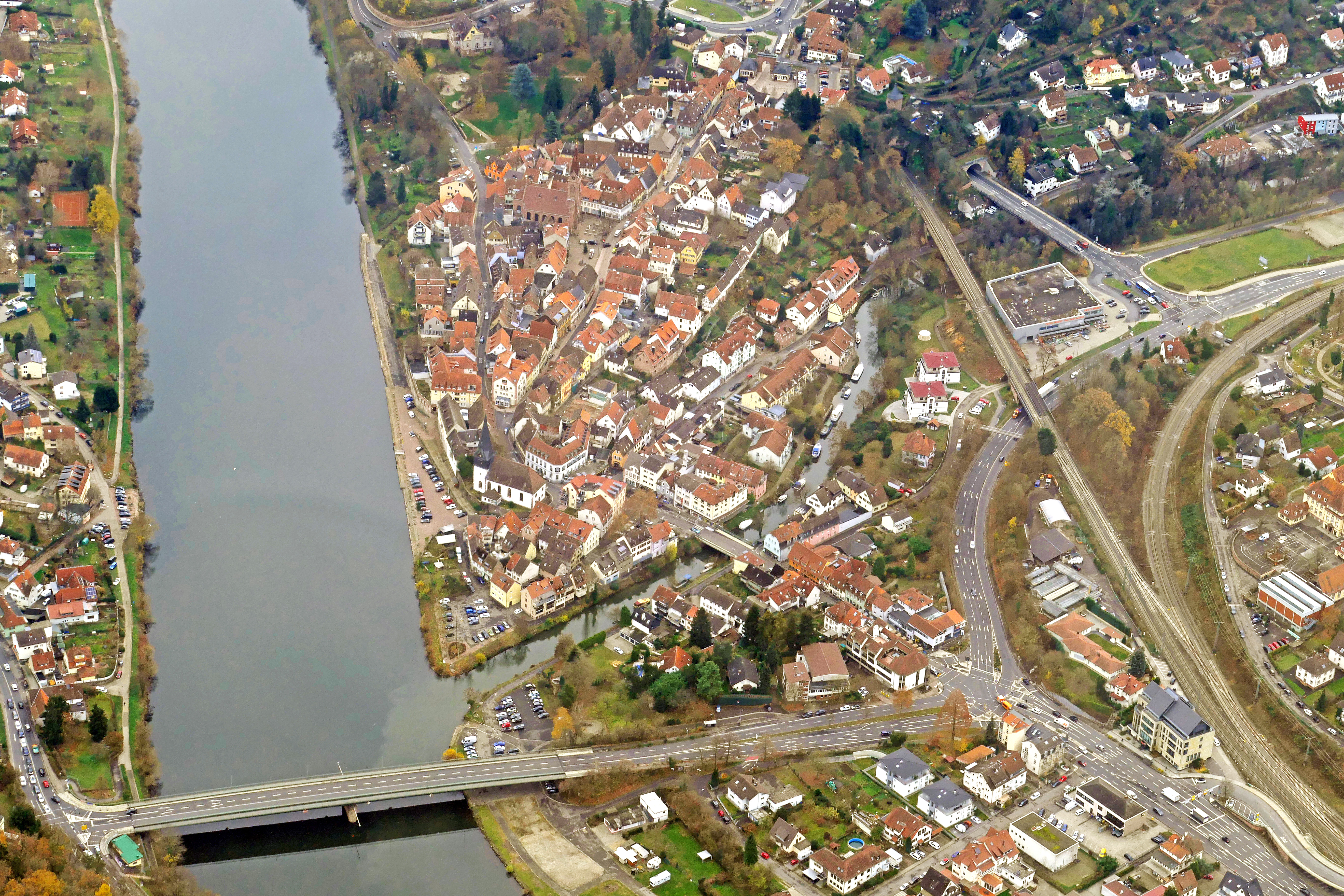 The old town of Neckargemünd photographed from a gyrocopter. The river Elsenz flows into the Neckar (left) directly next to the "Friedensbrücke" bridge. You can also see the Hollmuth road tunnel and the railway tunnel (somewhat hidden).